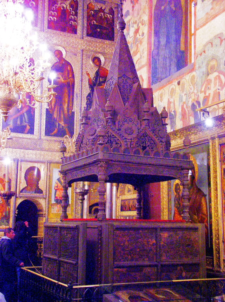 Monomakh's Throne. Moscow Kremlin museums exhibitions. Moscow, Russia.